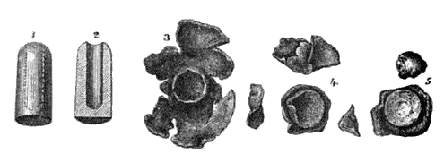 Taken from British Rural Sports, Comprising Shooting, Hunting, Coursing, Fishing, [etc.] by John Henry Walsh, 9th Ed. 1870, page 109. Drawings of hollow point express bullets before firing (1, 2) and after recovery from game animals (3, 4, 5). Bullets in this case were for a Westley Richards single rifle.